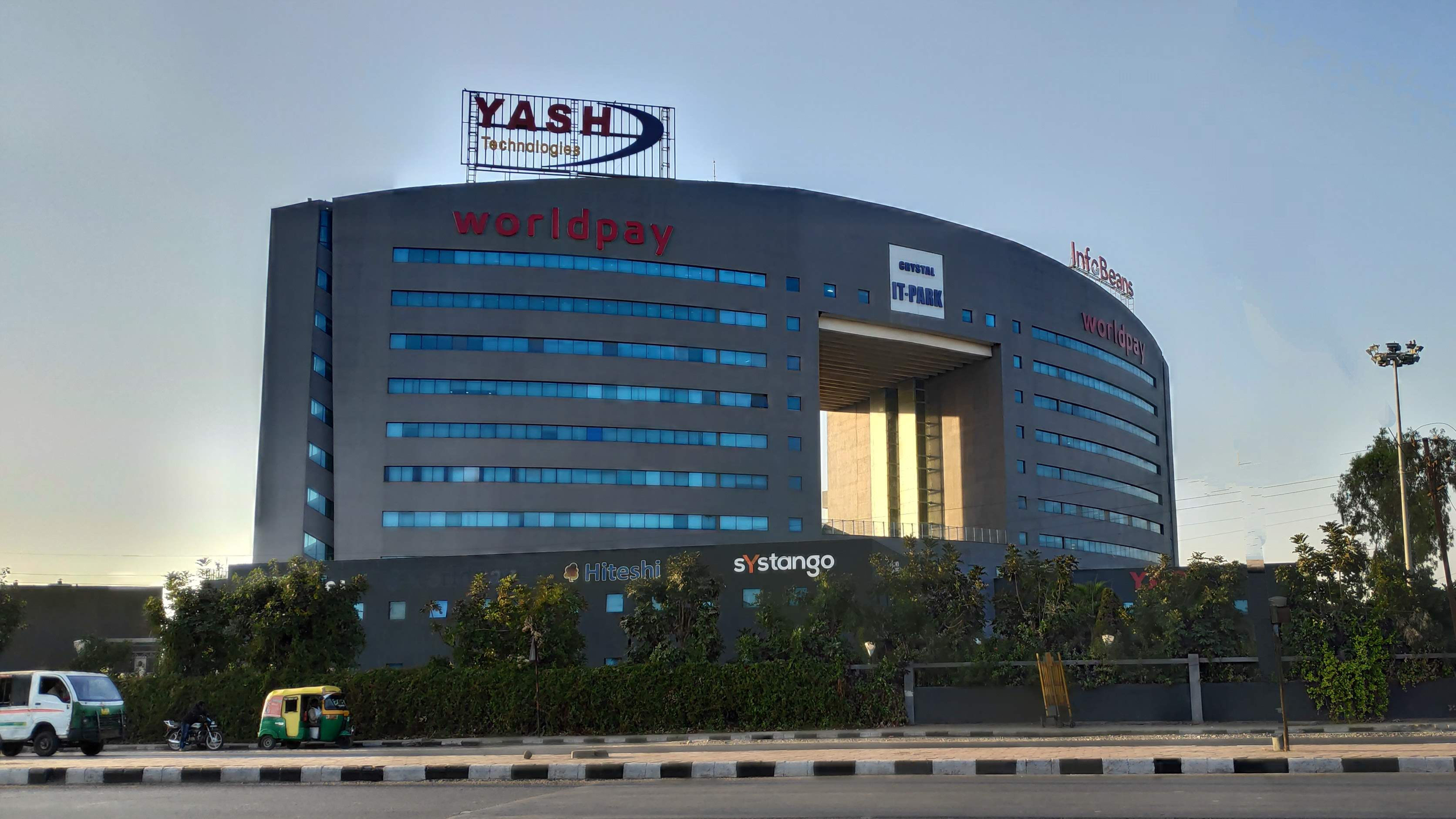 This is the Indore IT park